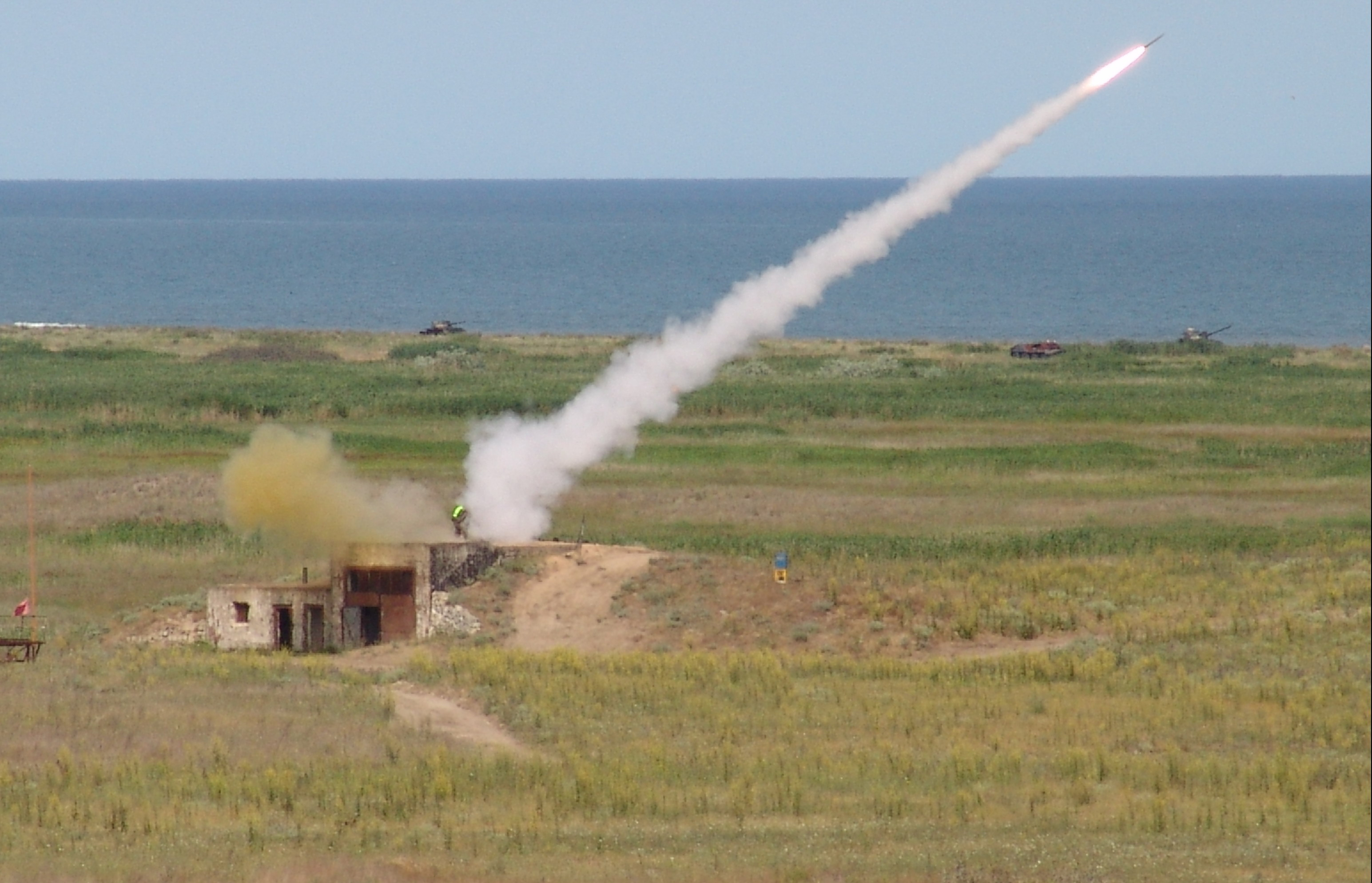 A Mistral missile launch during a French demonstration at Capu Midia firing range (Romania, "CARPATINA 07" military exercise).